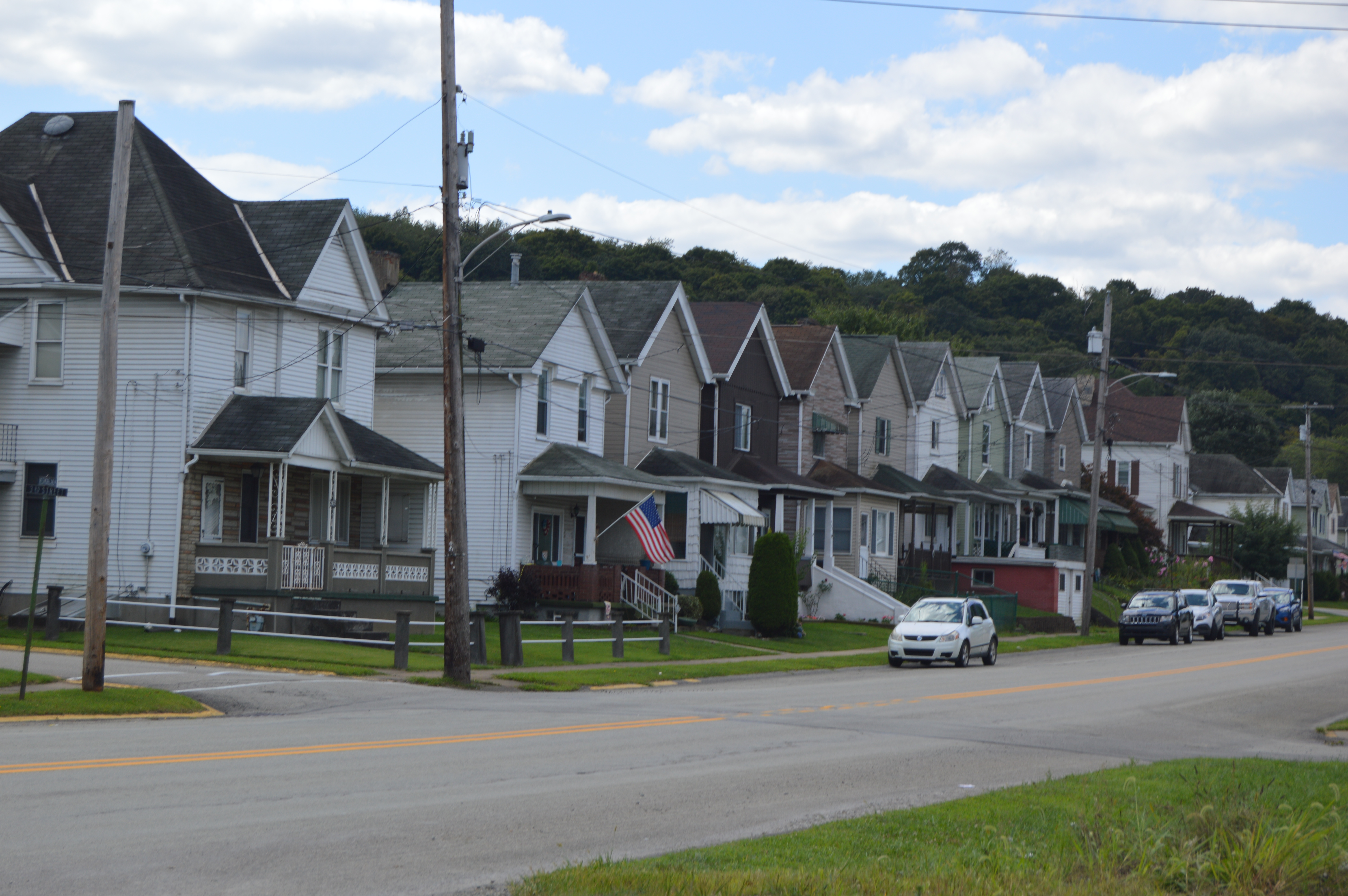 Houses on Westmoreland Avenue (Pennsylvania Route 156) west of Third Street in Avonmore, Pennsylvania, United States.